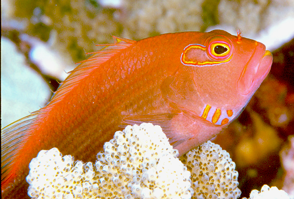 Paracirrhites arcatus Arc-Eye Hawkfish, Kona, Hawaii. Image taken by Clark Anderson/Aqauimages.